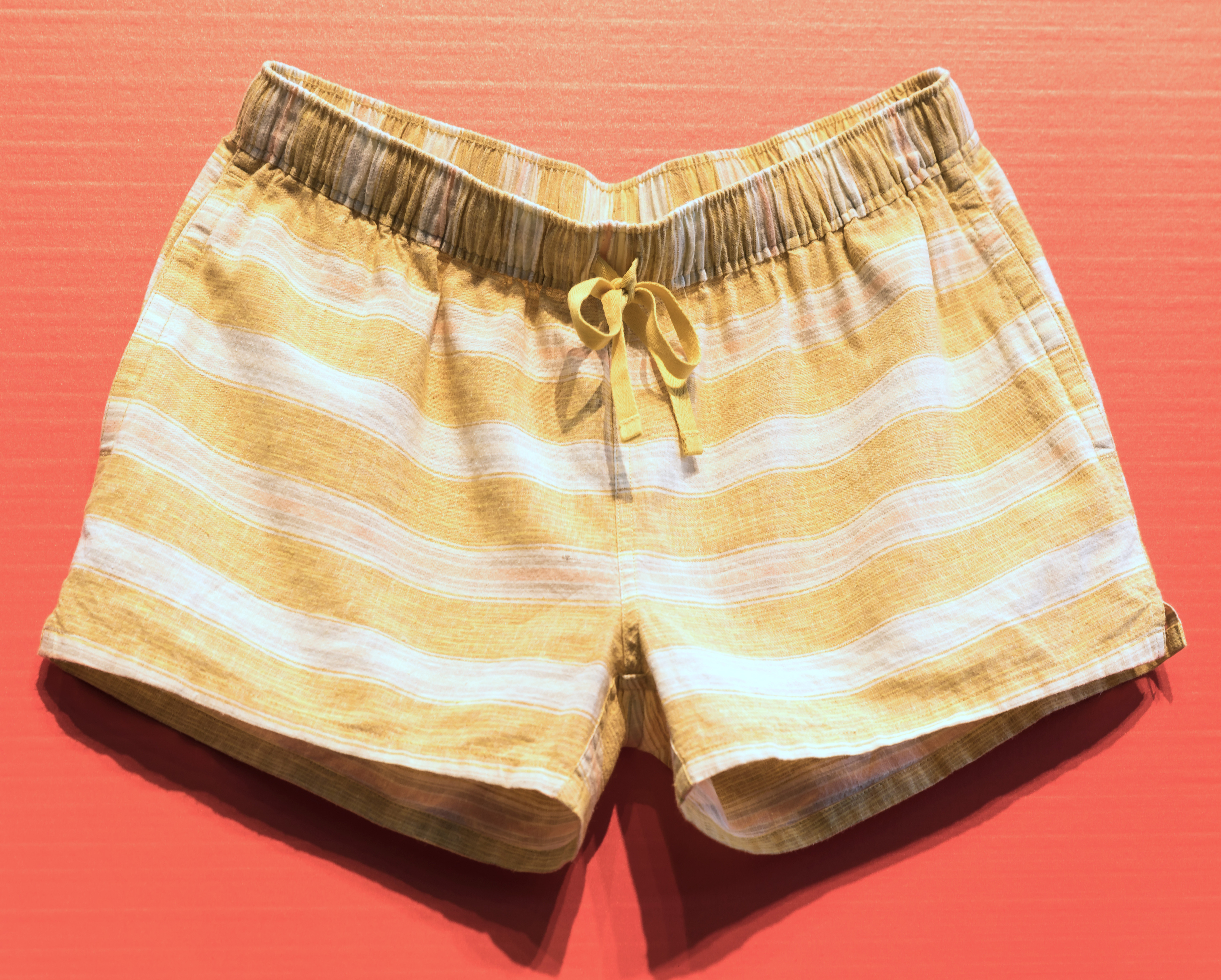 OutDoor 2018